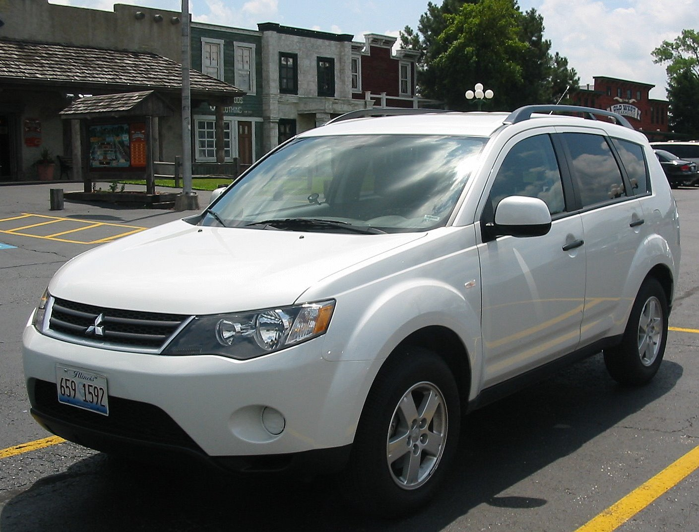 2007 Mitsubishi Outlander, photographed in Illinois, USA